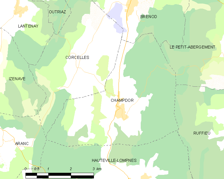 Map of French commune: Champdor Map commune FR insee code 01080.png